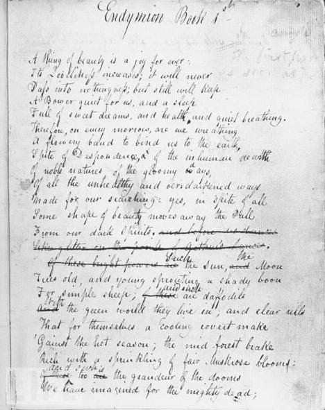 Draft of Endymion by John Keats; from the collection in the Morgan Library.